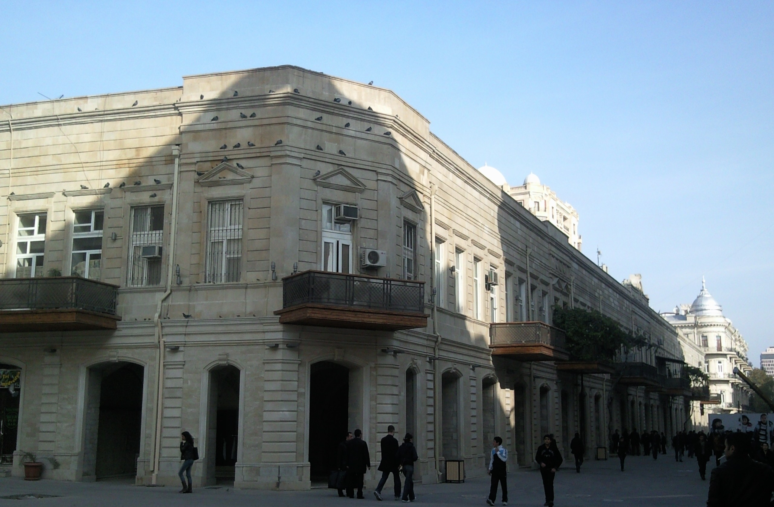 "Vatan" cinema center in Baku.